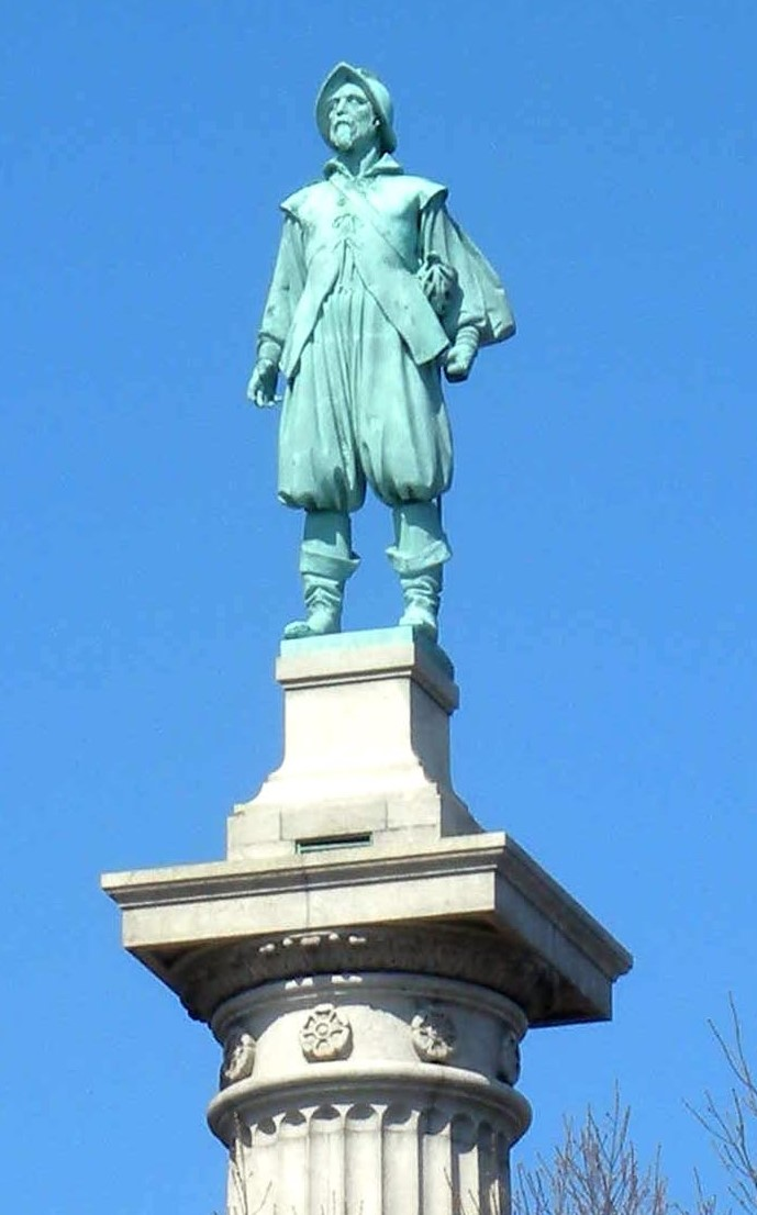 Looking northwest at the top of the Doric column with Henry Hudson statue in Henry Hudson Park on a sunny midday.